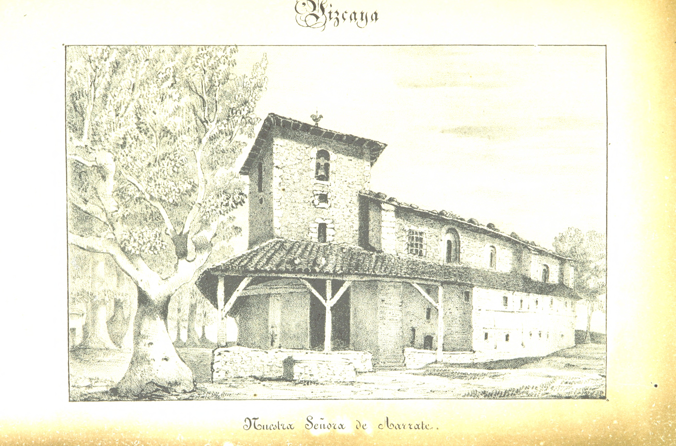 Image taken from: Title: "Revista pintoresca de las provincias Bascongadas. Edicion de lujo. Adornada con vistas ... por S. Lambla. Escrita por L. M. de E. y A. A. y H. Entrega 1-45" Author: E., L. M. de - and A. y H. (A.) Contributor: A. y H., A. Contributor: LAMBLA, Julio. Shelfmark: "British Library HMNTS 10161.f.16." Page: 453 Place of Publishing: Bilbao Date of Publishing: 1844 Issuance: monographic Identifier: 001024664 Explore: Find this item in the British Library catalogue, 'Explore'. Download the PDF for this book (volume: 0) Image found on book scan 453 (NB not necessarily a page number) Download the OCR-derived text for this volume: (plain text) or (json) Click here to see all the illustrations in this book and click here to browse other illustrations published in books in the same year. Order a higher quality version from here.